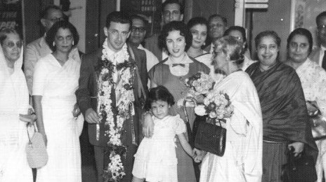 Marriage